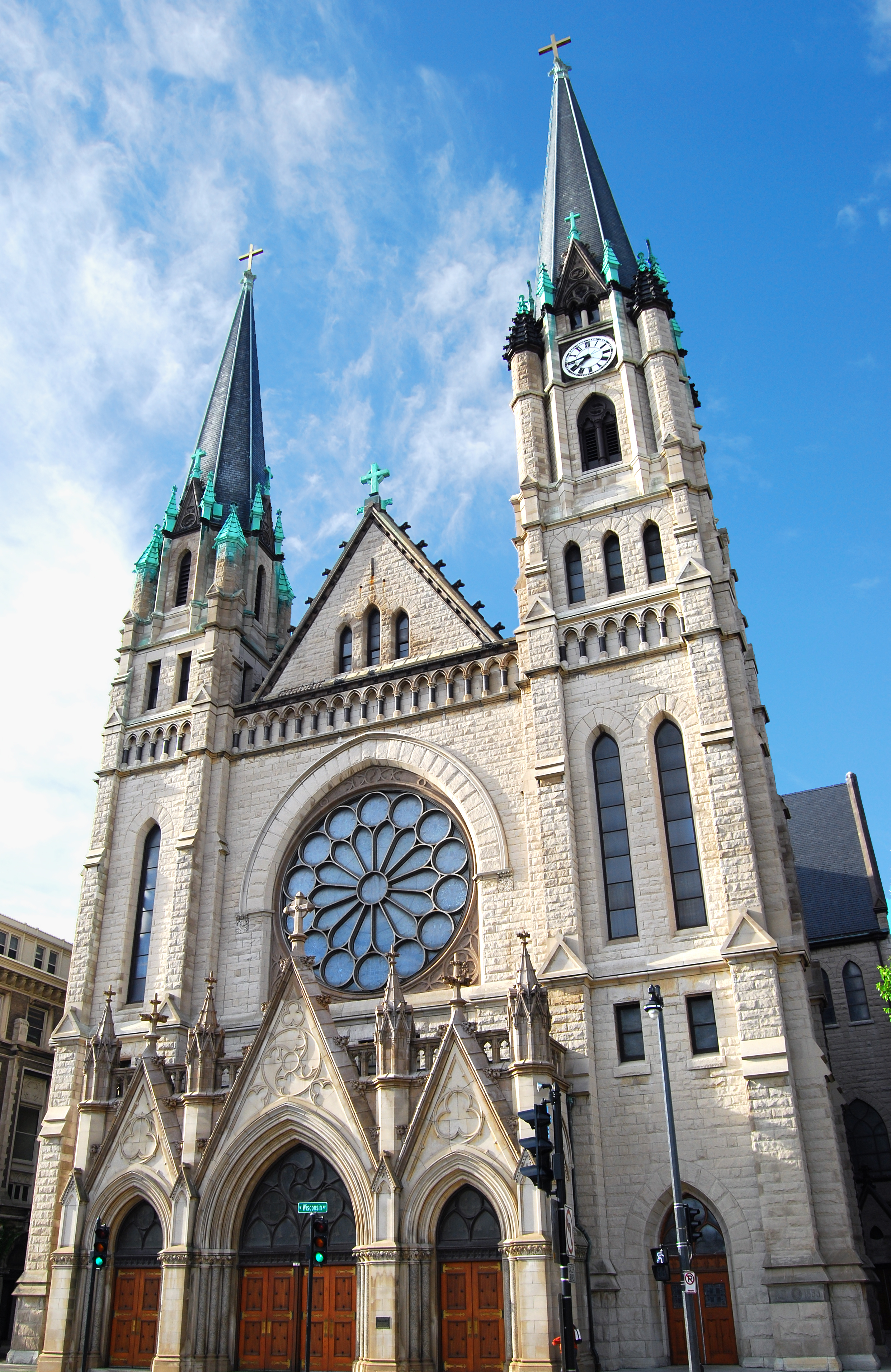 Gesu Church (Roman Catholic) in Milwaukee, Wisconsin. Photo taken in June, 2008. © Matthew Hendricks (image self-created and owned by SCUMATT (talk) 03:03, 18 June 2008 (UTC); released under Creative Commons license)